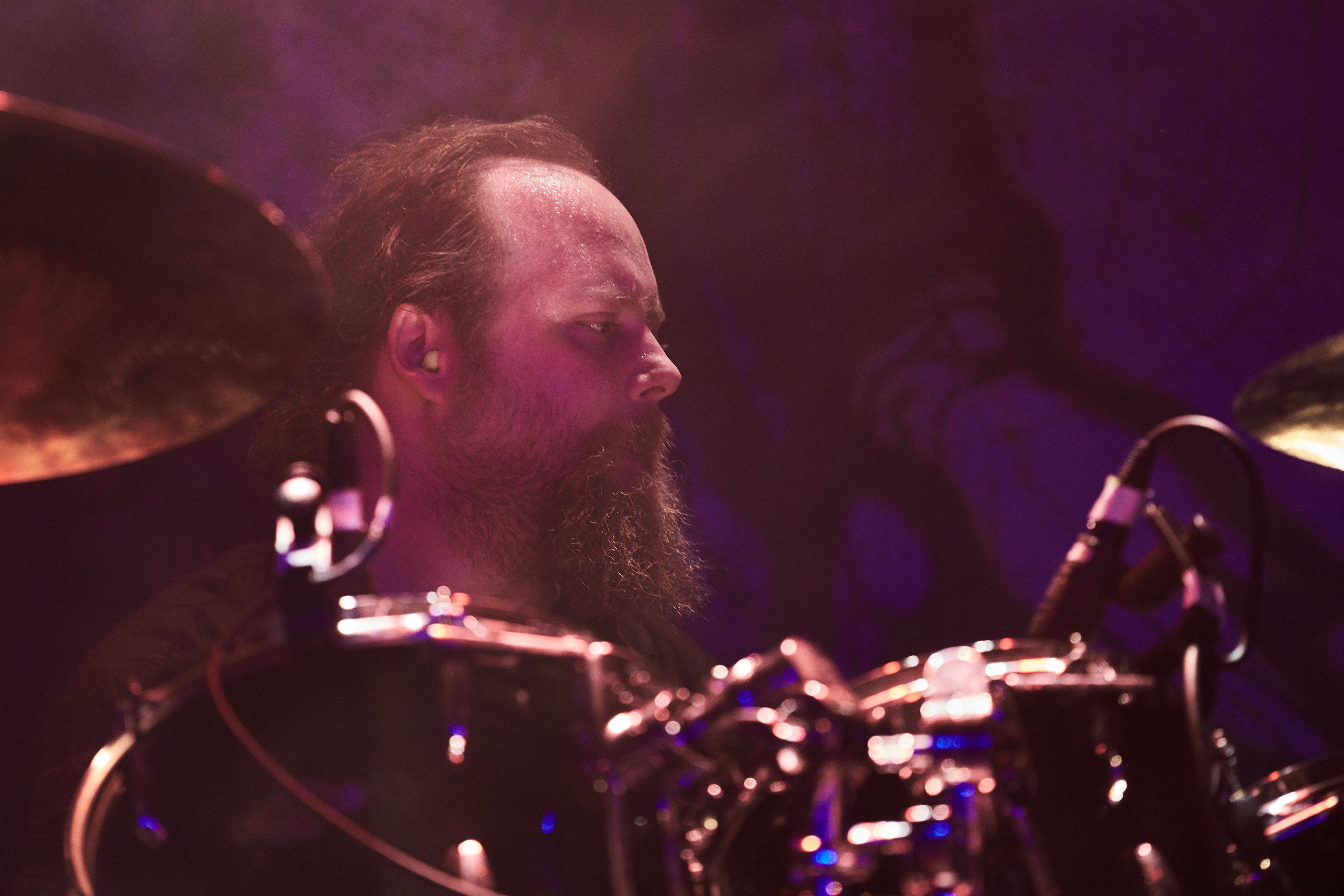 British band My Dying Bride at Hammer of Doom Festival, Würzburg, Posthalle, 21.11.2015 Festivalsommer This photo was created with the support of donations to Wikimedia Deutschland in the context of the CPB project "Festival Summer". Personality rights warning Although this work is freely licensed or in the public domain, the person(s) shown may have rights that legally restrict certain re-uses unless those depicted consent to such uses. In these cases, a model release or other evidence of consent could protect you from infringement claims.